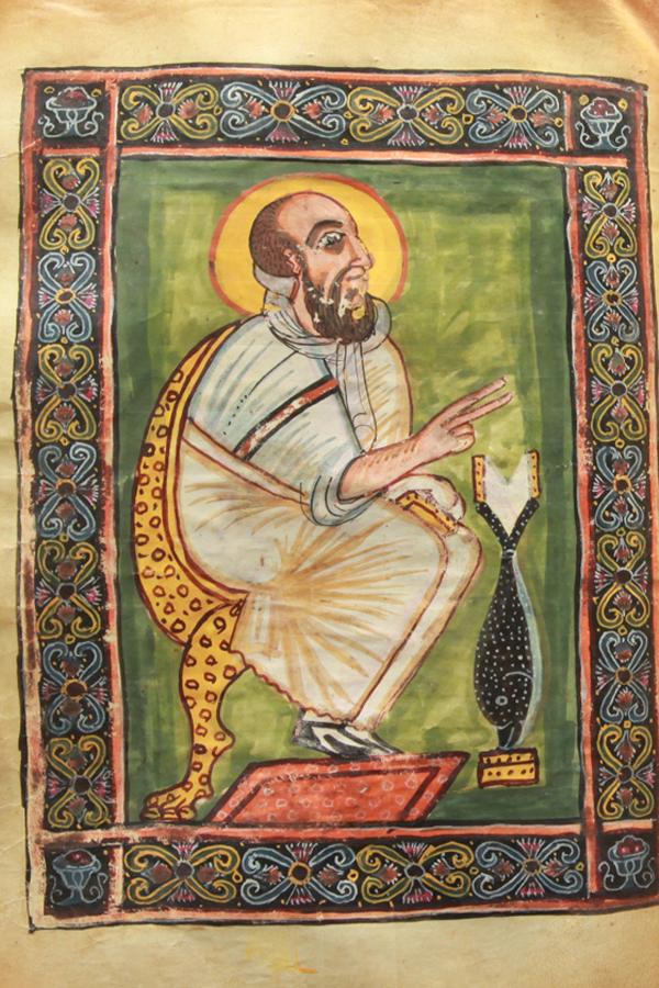 Illumination from the Garima Gospels, in a scene depicting Mark the Evangelist.